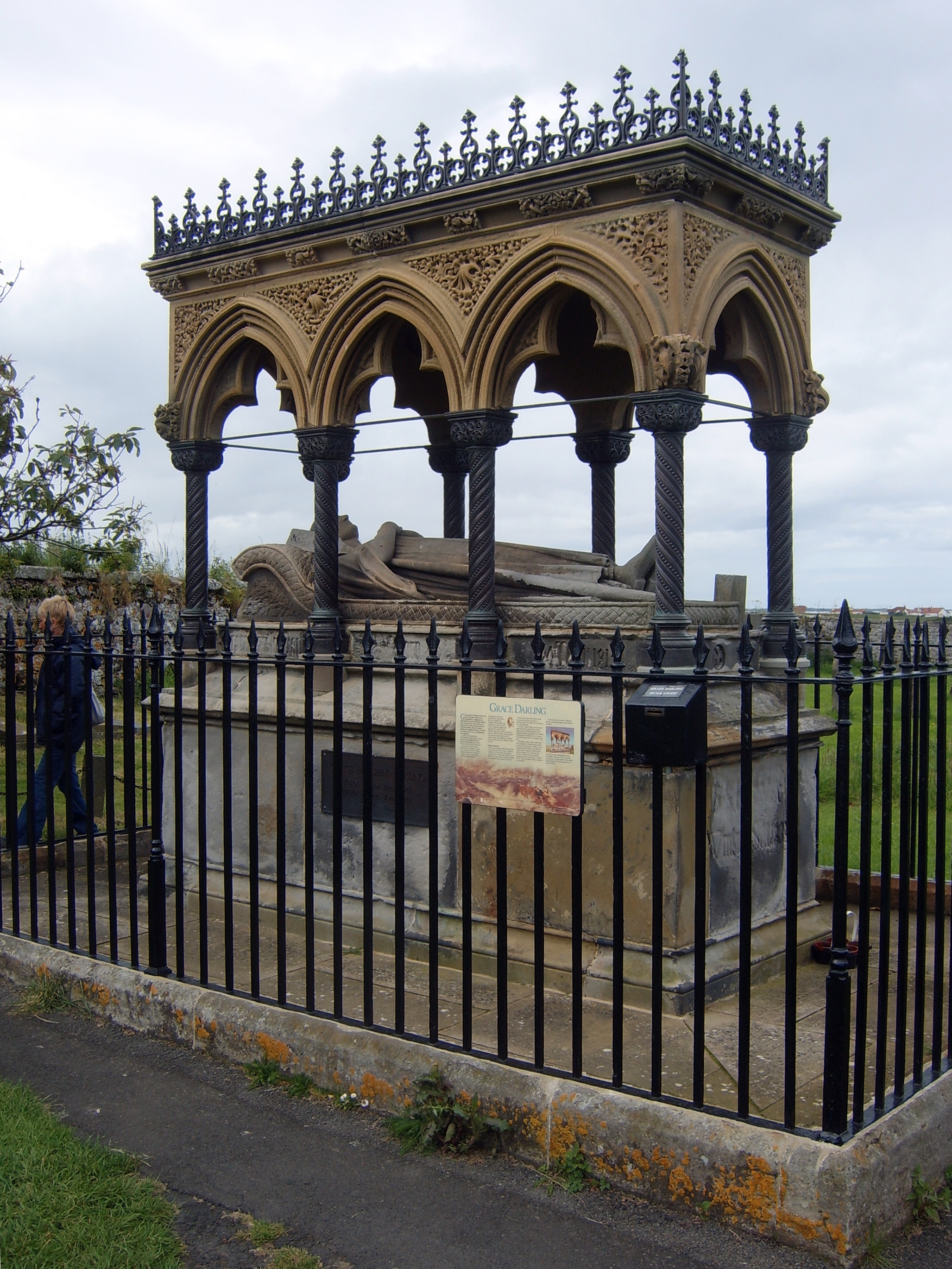 Monument to Grace Darling in St Aidan's churchyard, Bamburgh, Northumberland.